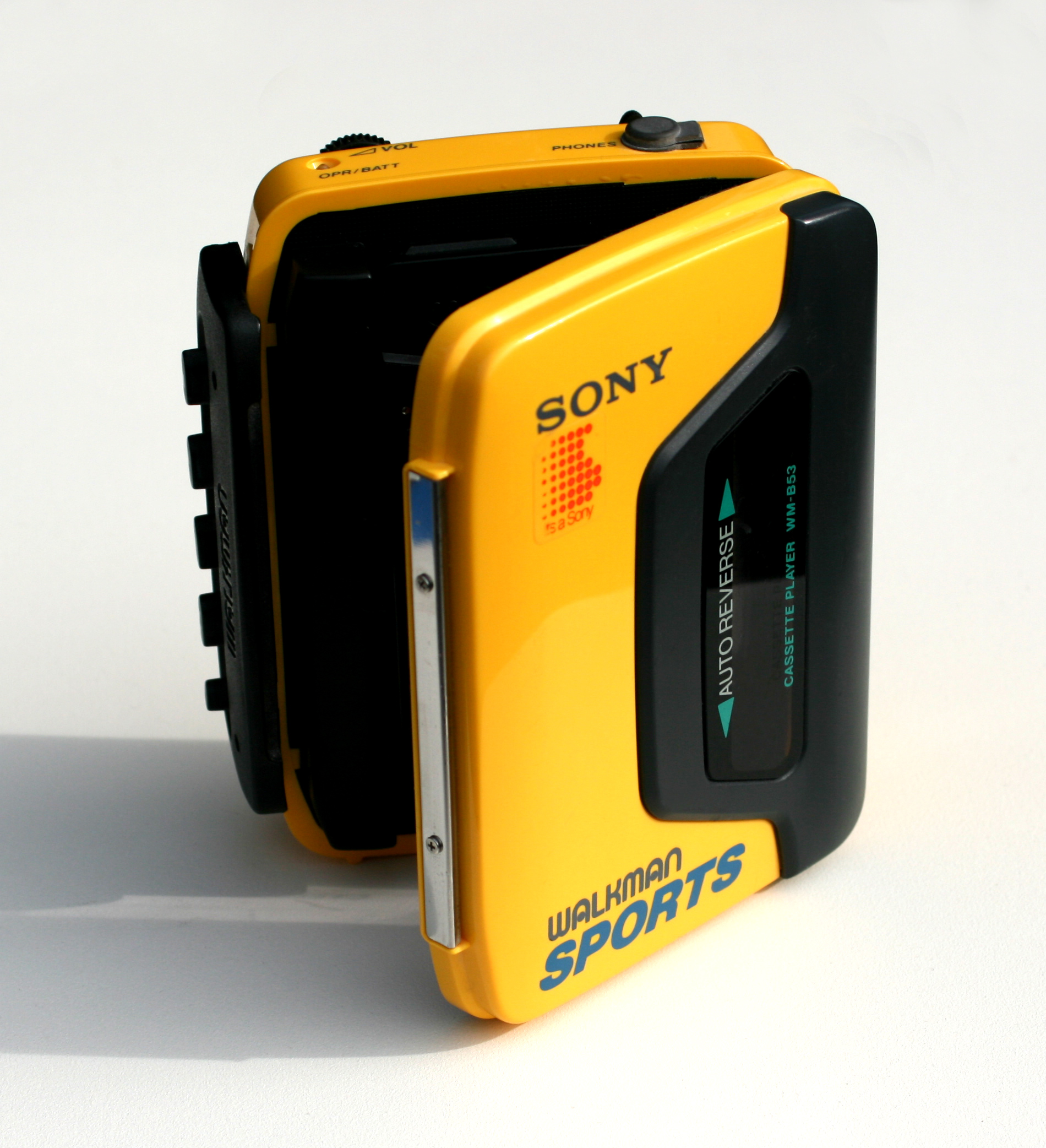 Sony Walkman Sports